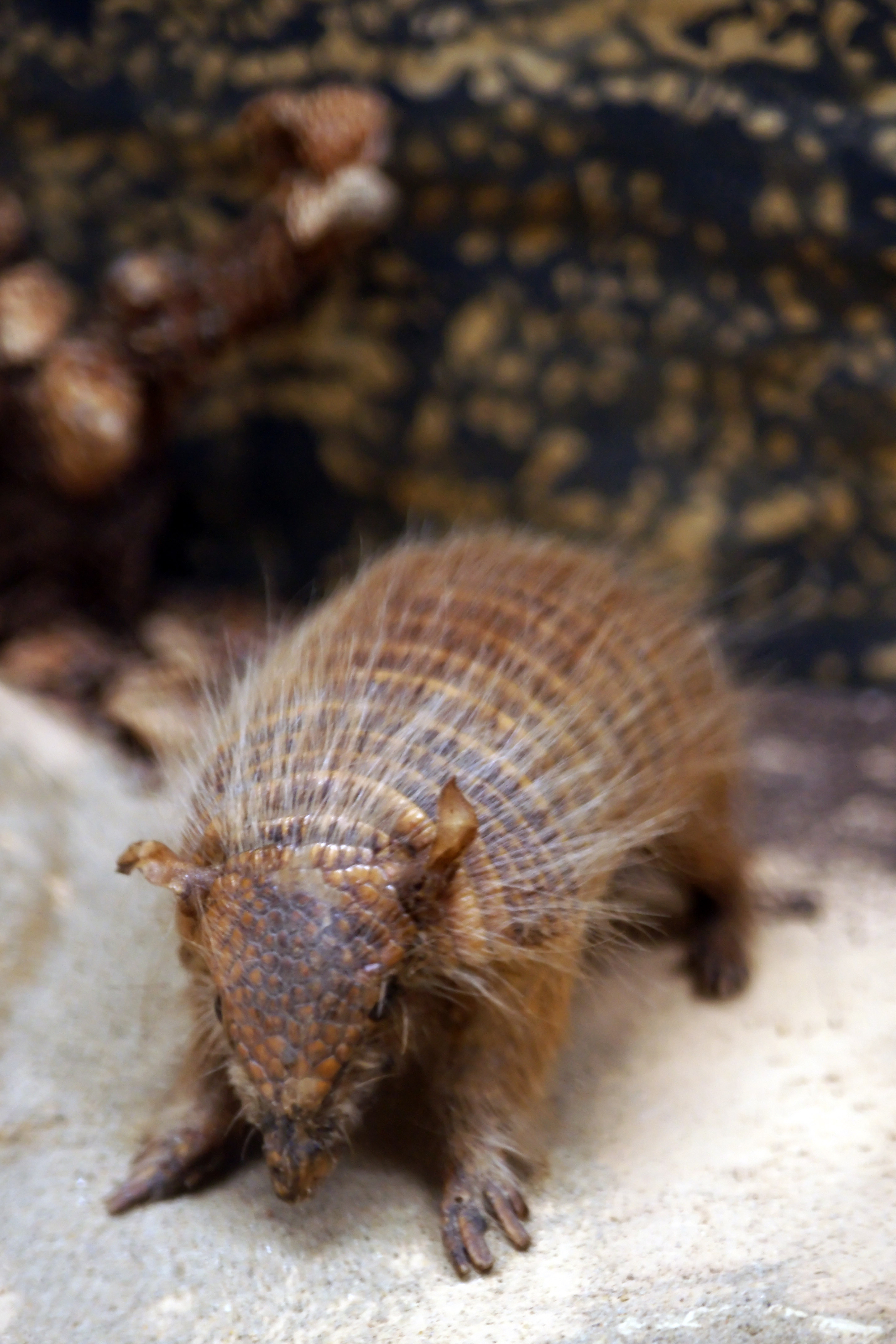 Screaming Hairy Armadillo, Chaetophractus vellerosus, Naturhistorisches Museum Wien.